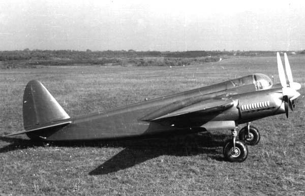 Italian Savoia-Marchetti SM.86 ground-attack aircraft